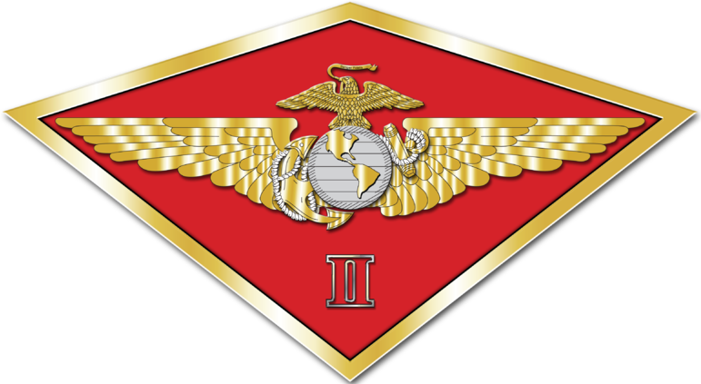 United States Marine Corps - Marine Air Wing II crest. Made with Photoshop.